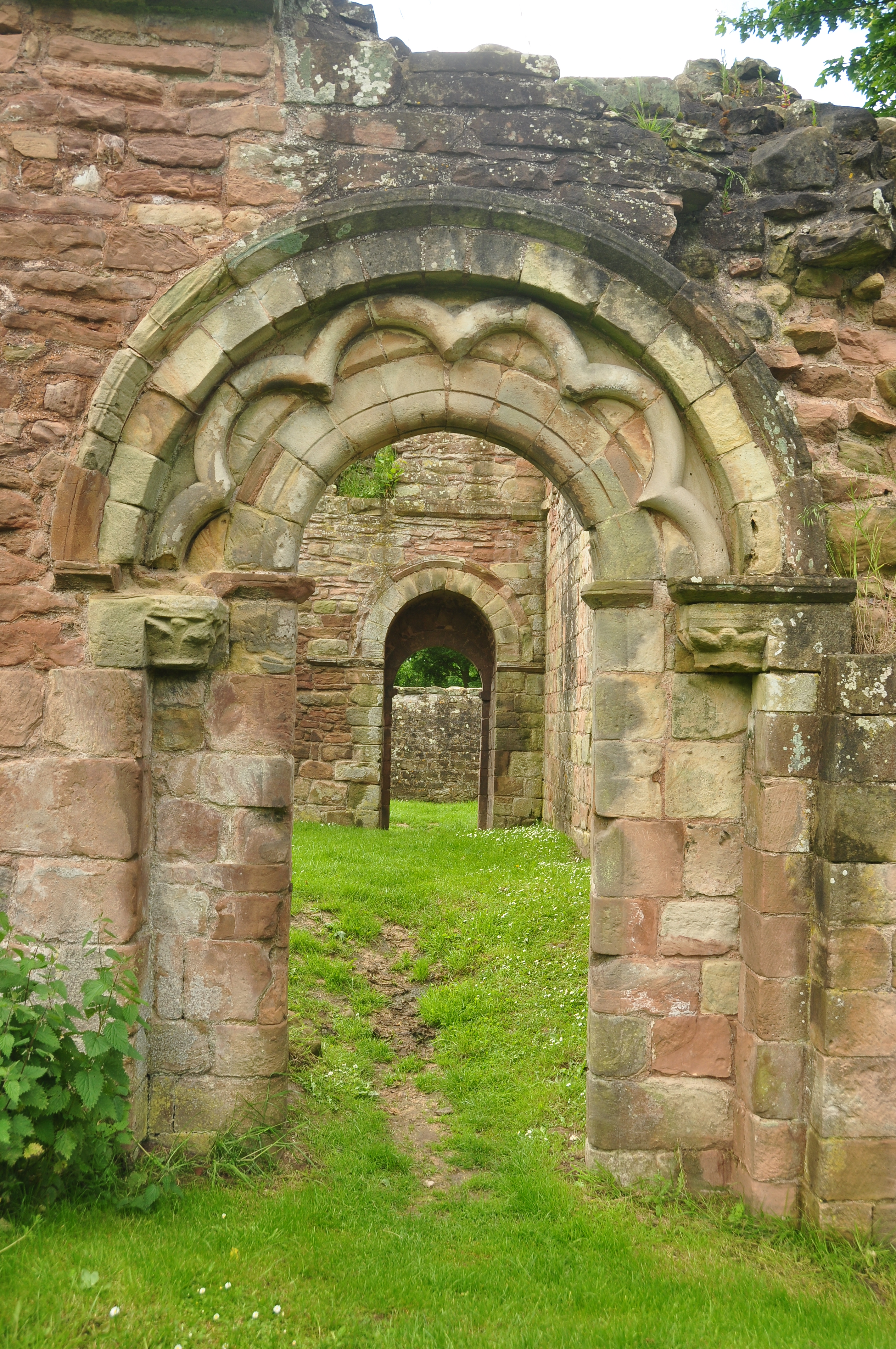 White Ladies Priory